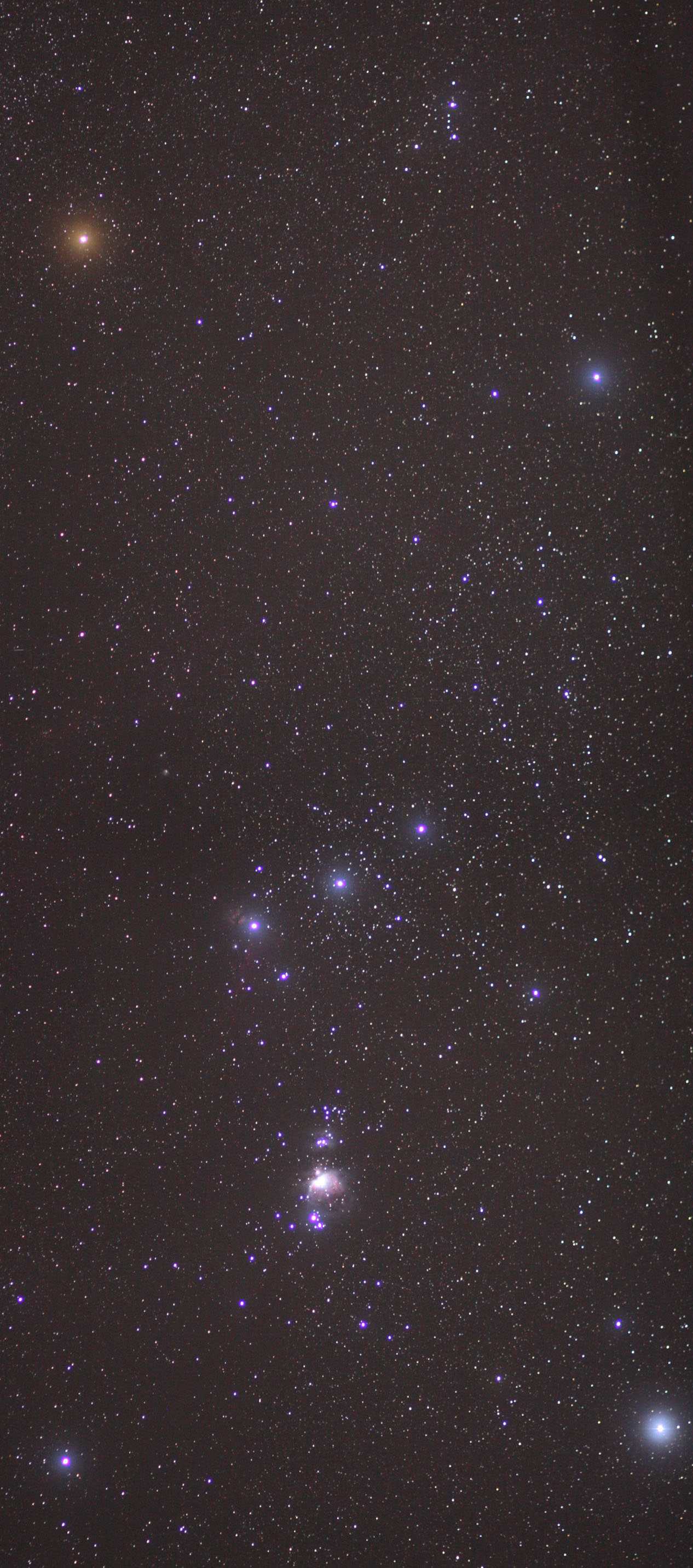 Composite from two images taken with Canon 85mm / 1.8, taken while Orion was nearly overhead in Bali.